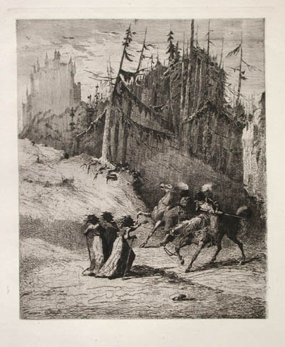 Proof Impression, before the addition of the publisher's address. Publisher: Société des Aqua-Fortistes, Paris, founded by Alfred Cadart (died, 1875)